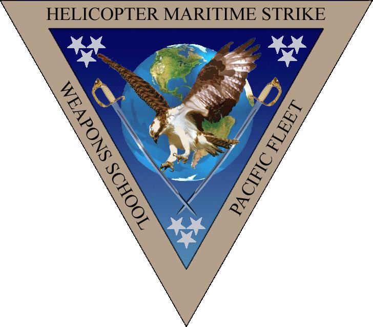 Official logo of Helicopter Maritime Strike Weapons School Pacific